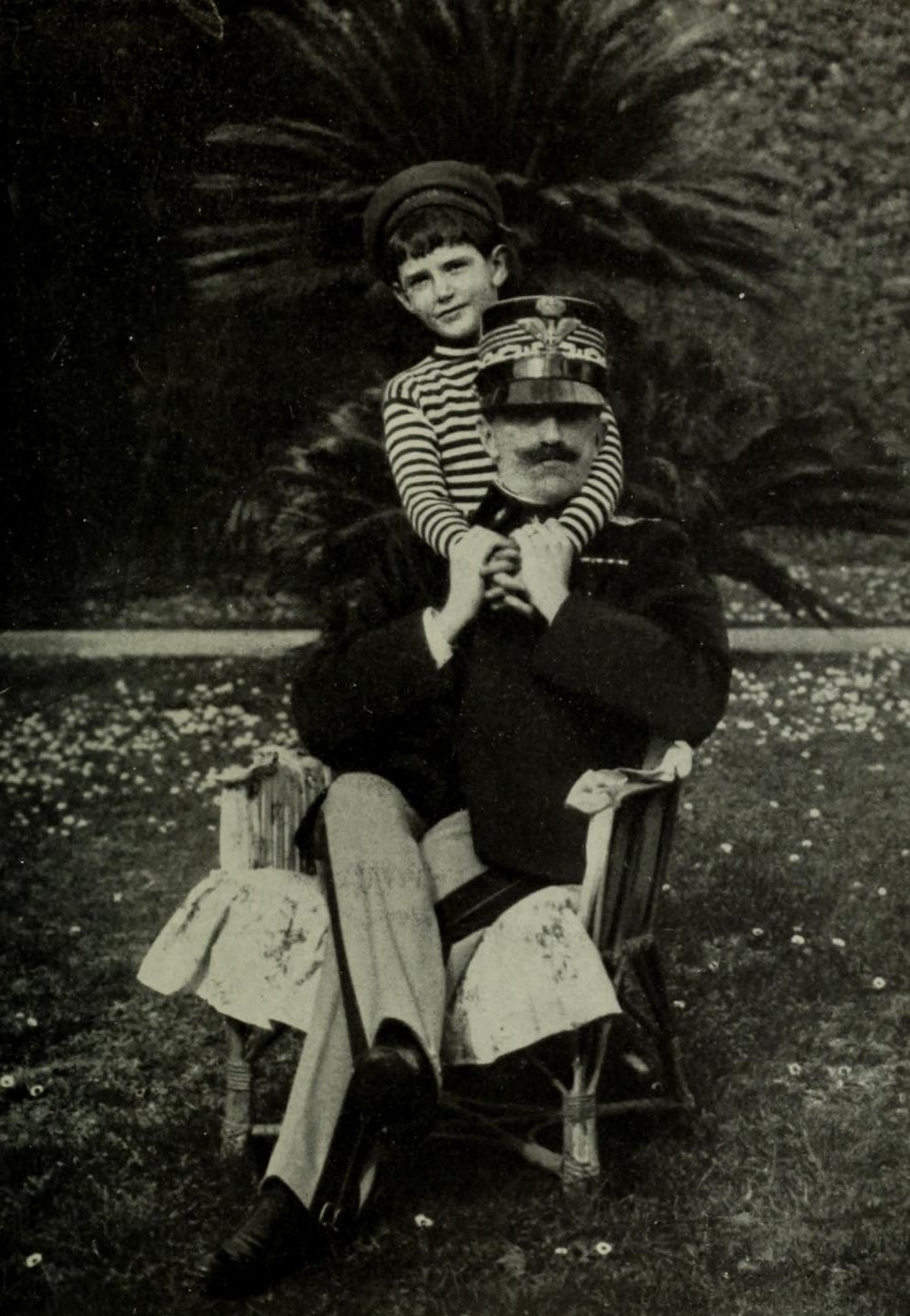 "King Victor Emmanuel and Crown Prince Umberto of Italy."